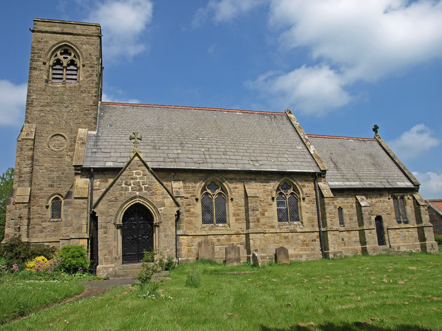 All Saints Church, Yafforth Typical church in this area. The church of ALL SAINTS OF YAFFORTH was almost entirely rebuilt in 1870 in 13th-century style.